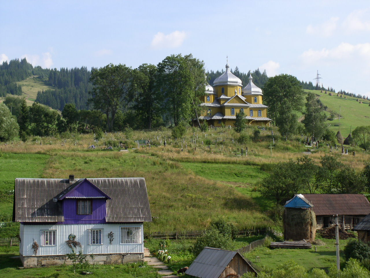 View from Kamianka-Buzka-Skole-Volovets railroad, Ukraine. Church in Ternavka, Skole Raion, Lviv Oblast.